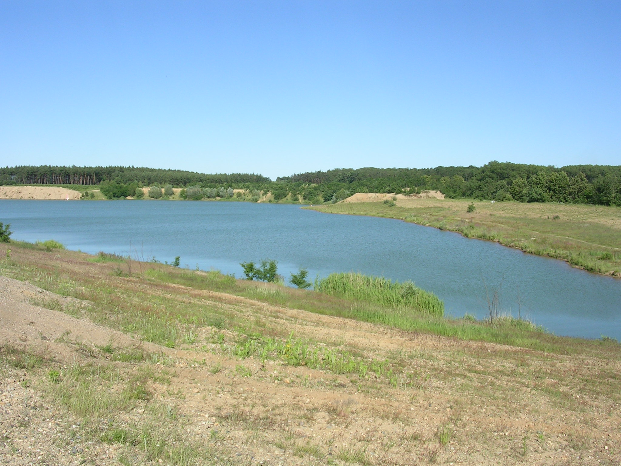 Dobříň, Litoměřice District, the Czech Republic. - Google Maps - Google Earth